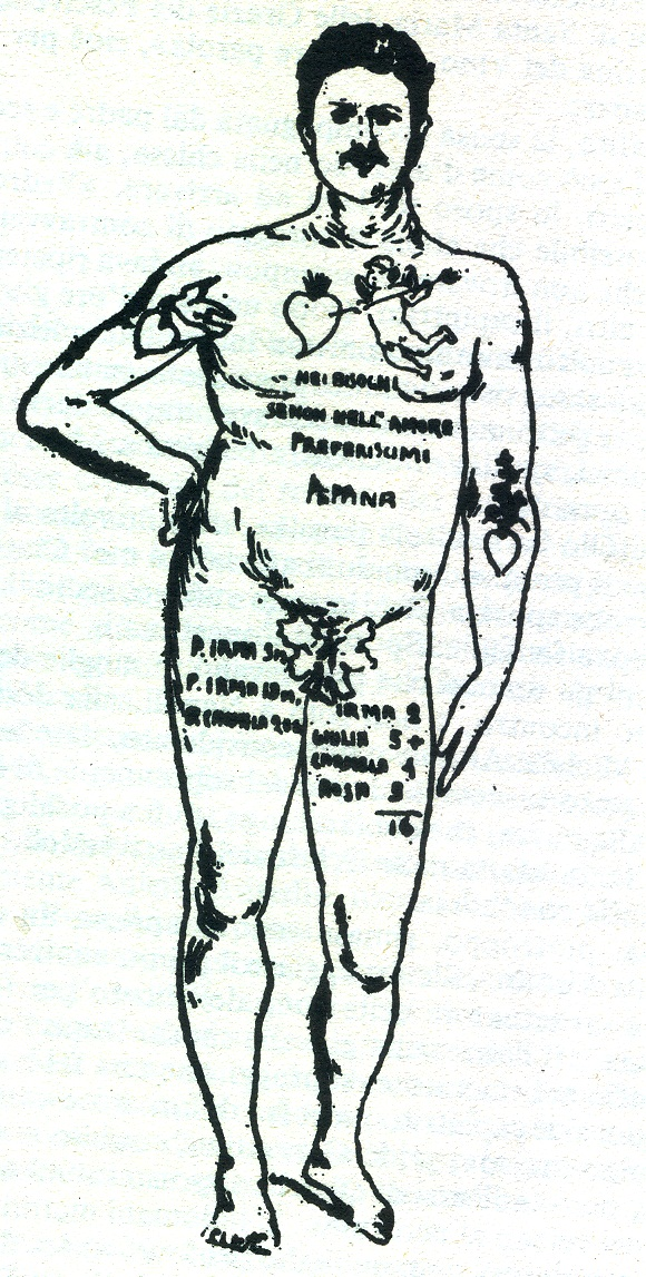 tattooed camorrista in Napoli, Italy. Anonymous drawing, 1905.